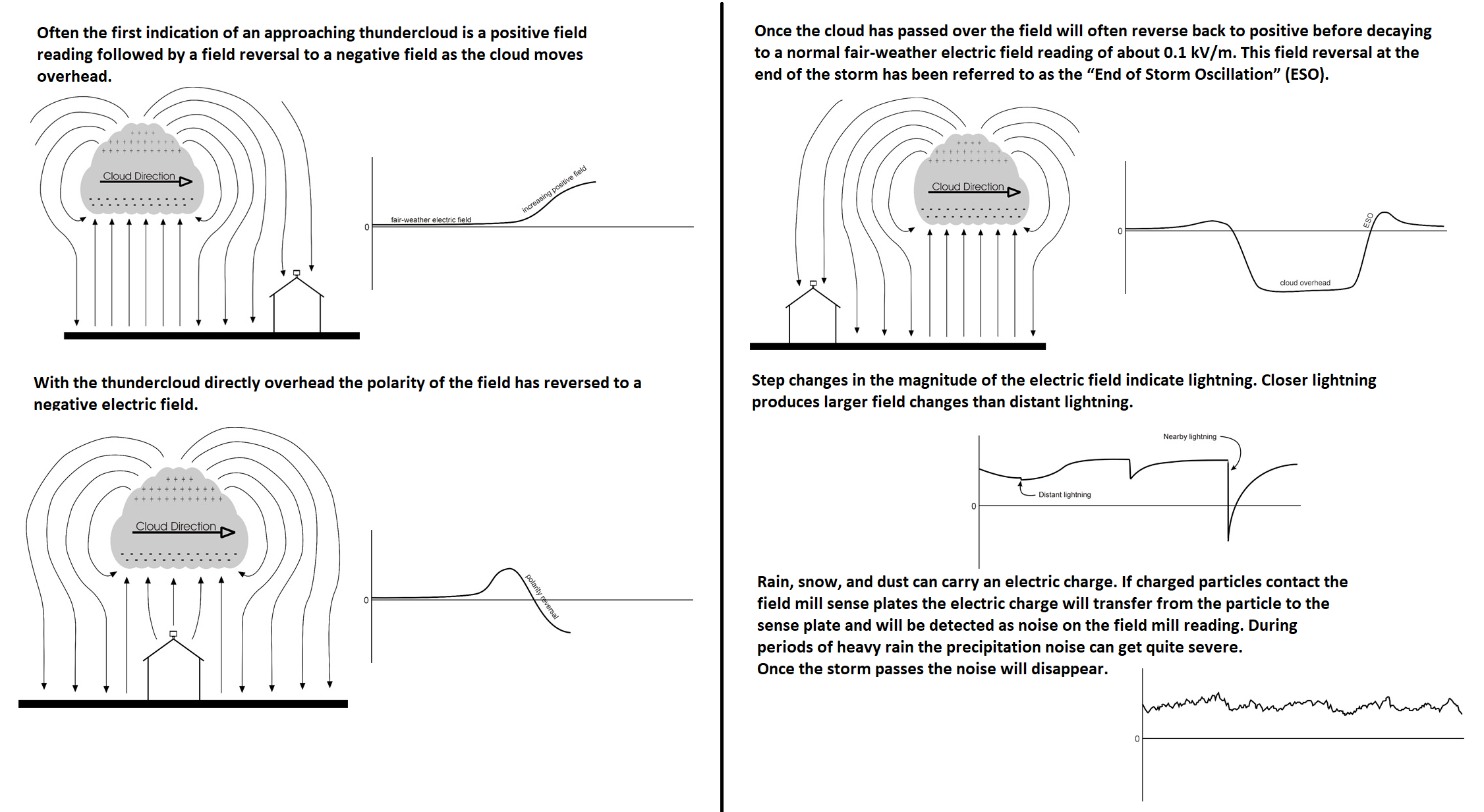 Described how an Electric field mill instrument works